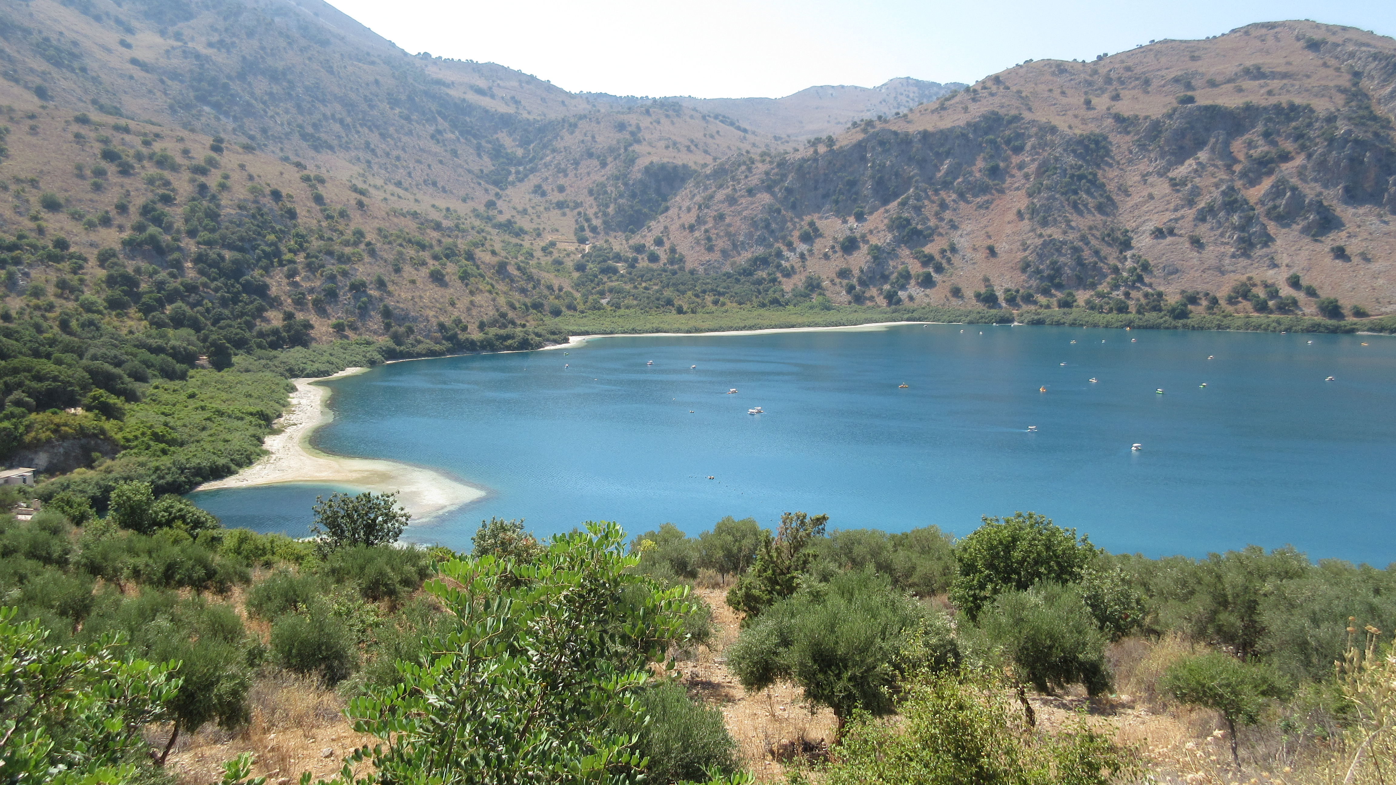 This is a photography of Natura 2000 protected area with ID GR4340022